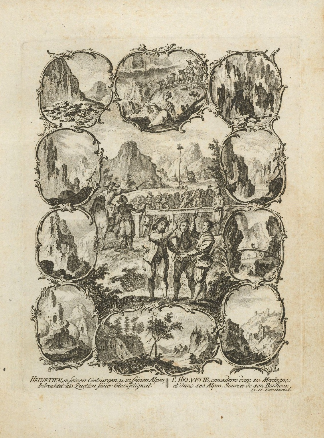 Frontispiece to Ode sur les Alpes, Berne 1773, by Albrecht von Haller (1708-1777). Typ 765.73.447, Houghton Library, Harvard University